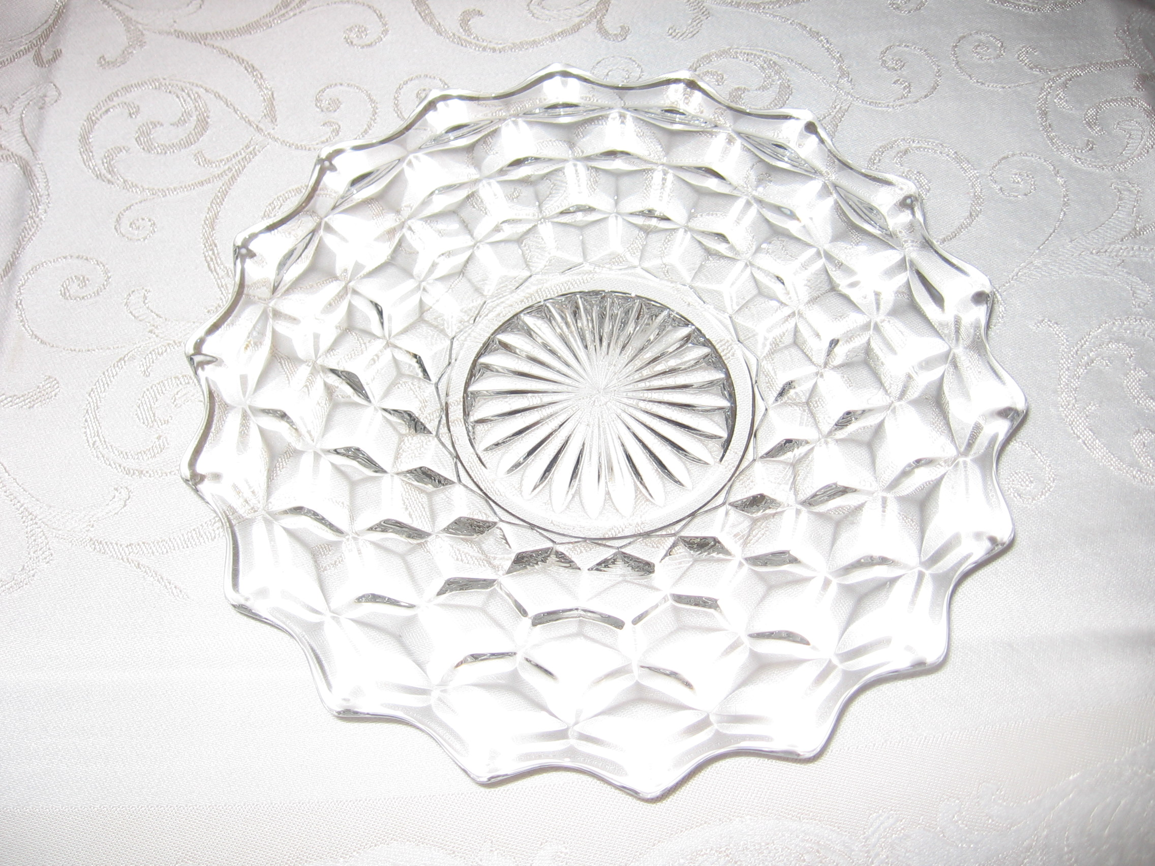 Clear Fostoria Plate